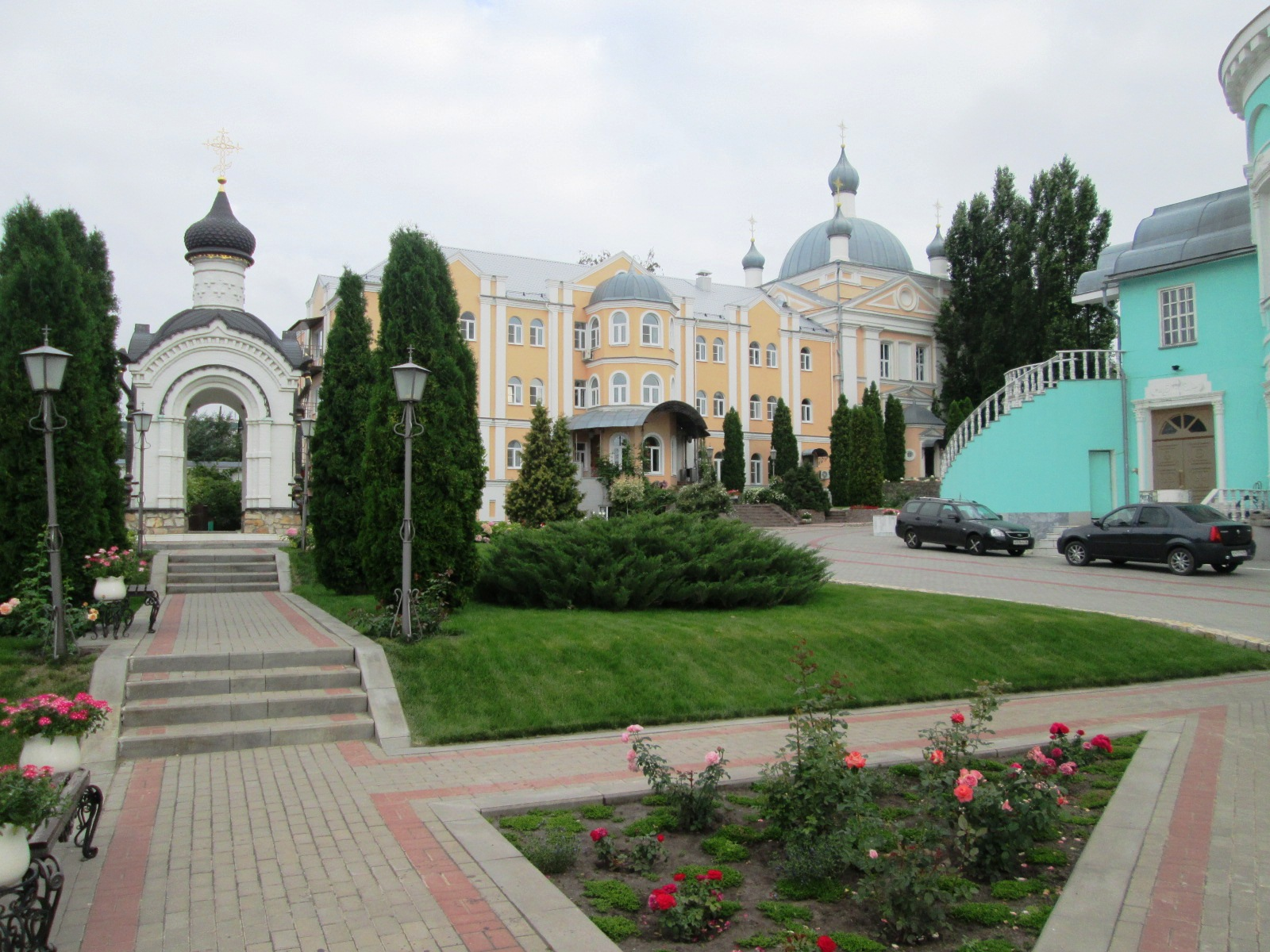 Around Alexeevo-Akatov Monastery in Voronezh, Russia